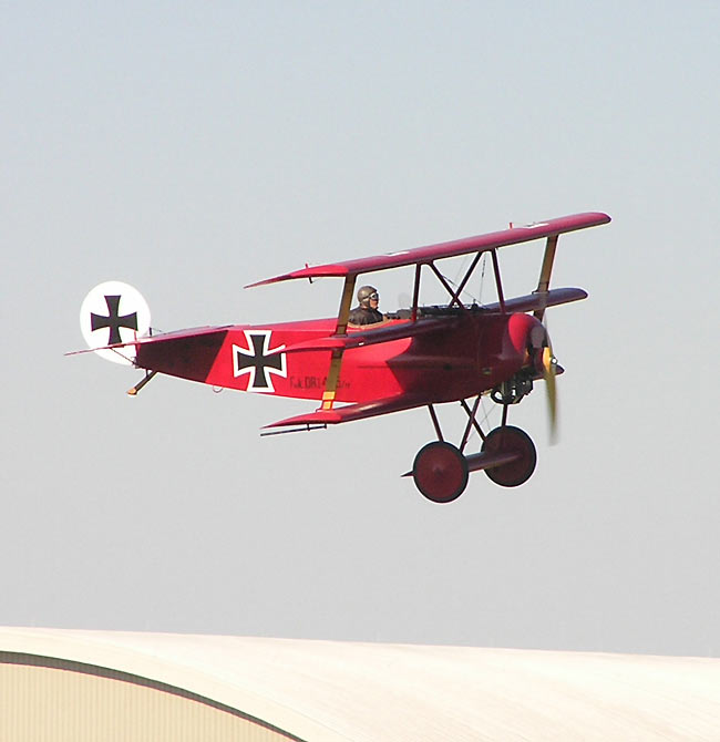 Fokker Dr.I replica